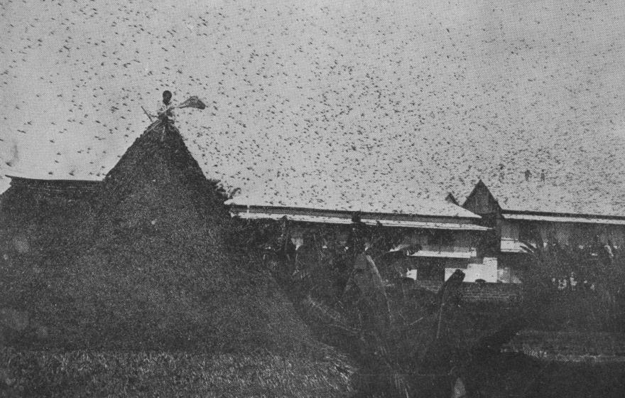 Locust and grasshopper campaign in the Philippines, illustration #11 from Scenes taken in the Philippines, China, Japan, and on the Pacific, relating to soldiers by James David Givens, published by Hicks-Judd Co. in 1912.